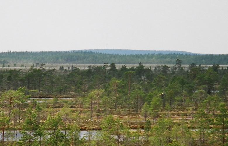 Lauhanvuori hill, the highest point in western Finland (231 m), seen from the watchtower above Kauhaneva mire, 15 km away. Part of the mire is seen in the foreground.